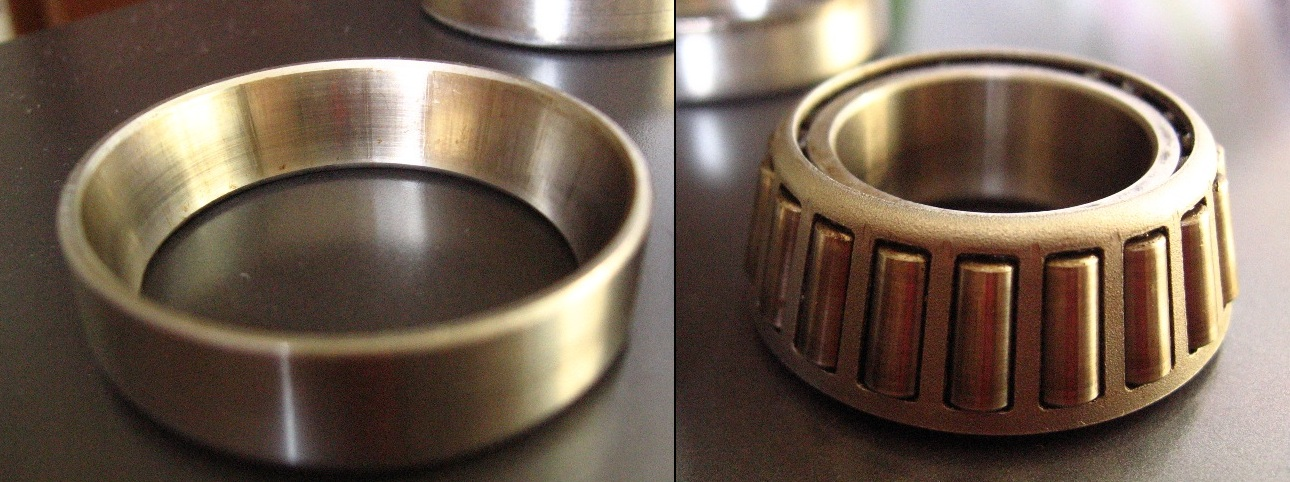 tapered roller bearing: outer race (left) + inner race & rolling elements (right)